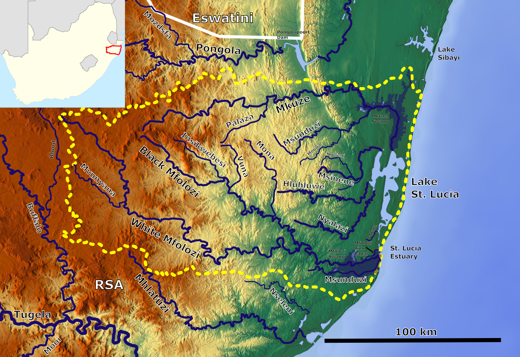 The St Lucia Estuary Catchment_OSM